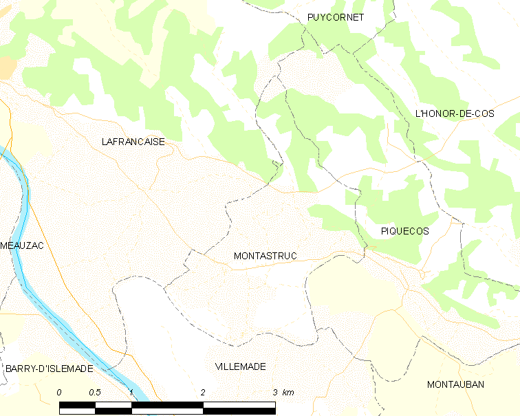 Map of French municipality Montastruc